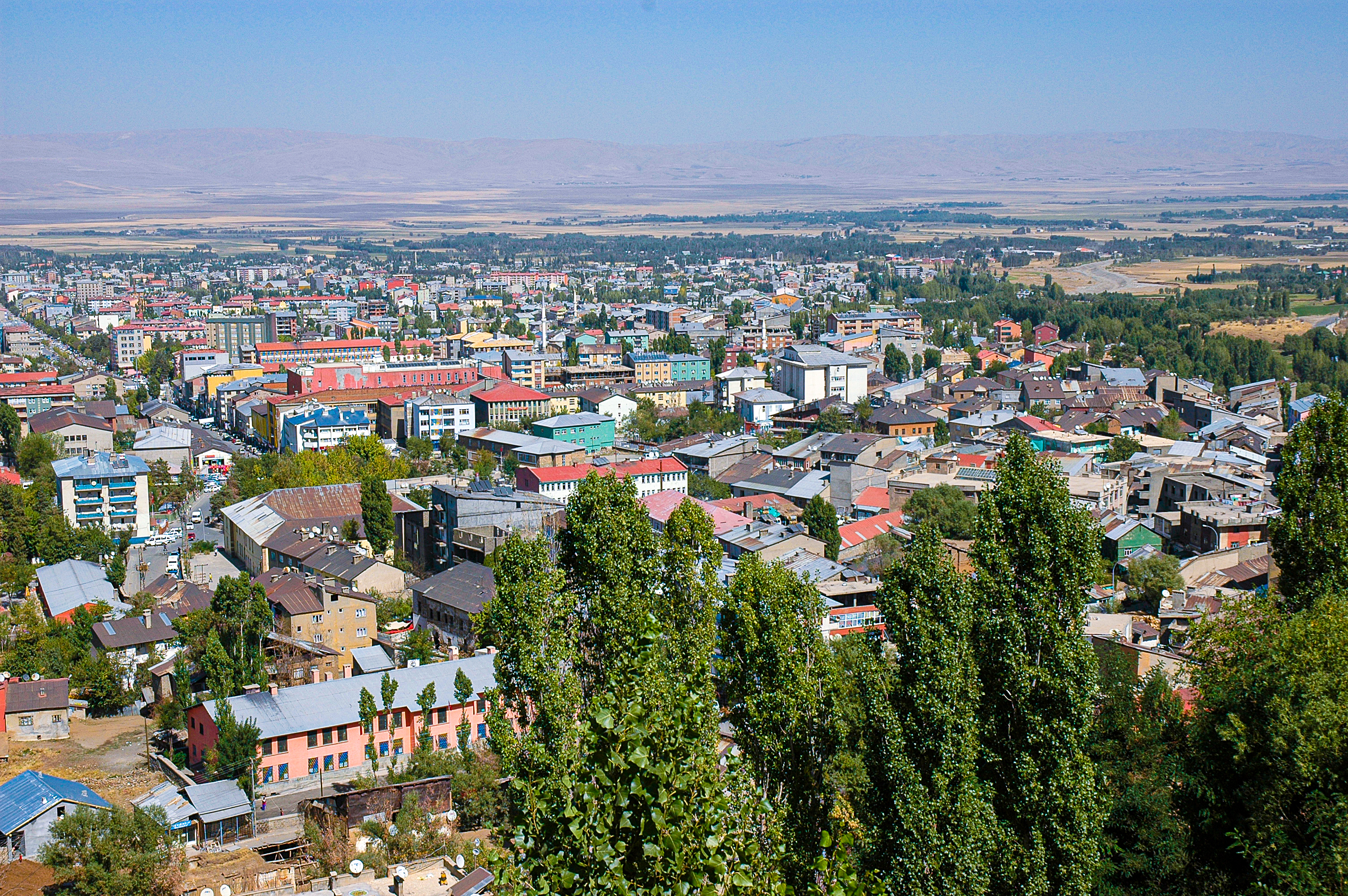 Muş is for a large part a modern town. But is has an old part that has three fine old mosques and is a joy for photographers. This is a view from the hill behind that part.